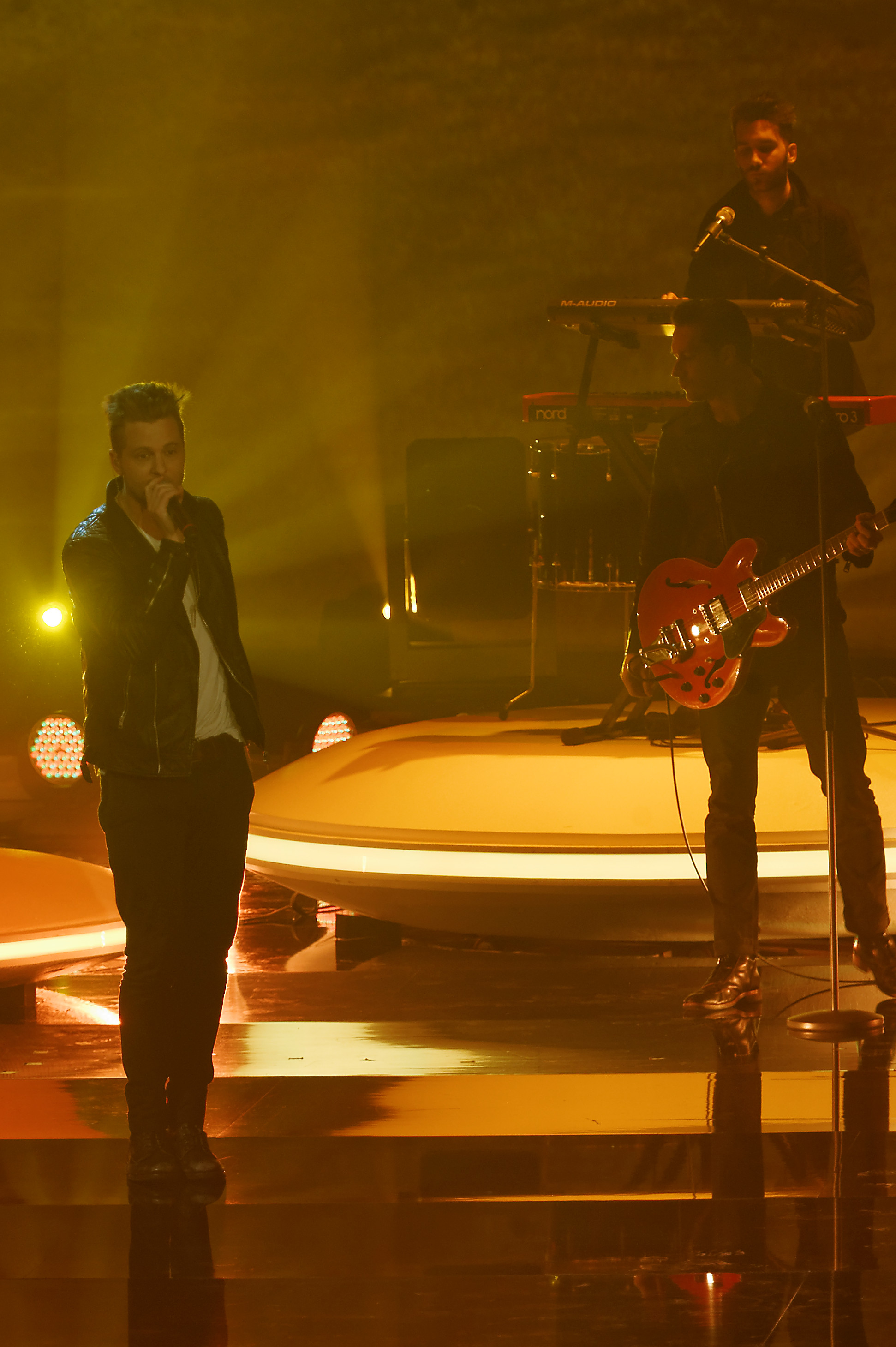 Wetten, dass.. ? am 23. März 2013 in der Stadthalle Wien The making of this document was supported by Wikimedia Austria. One Republic